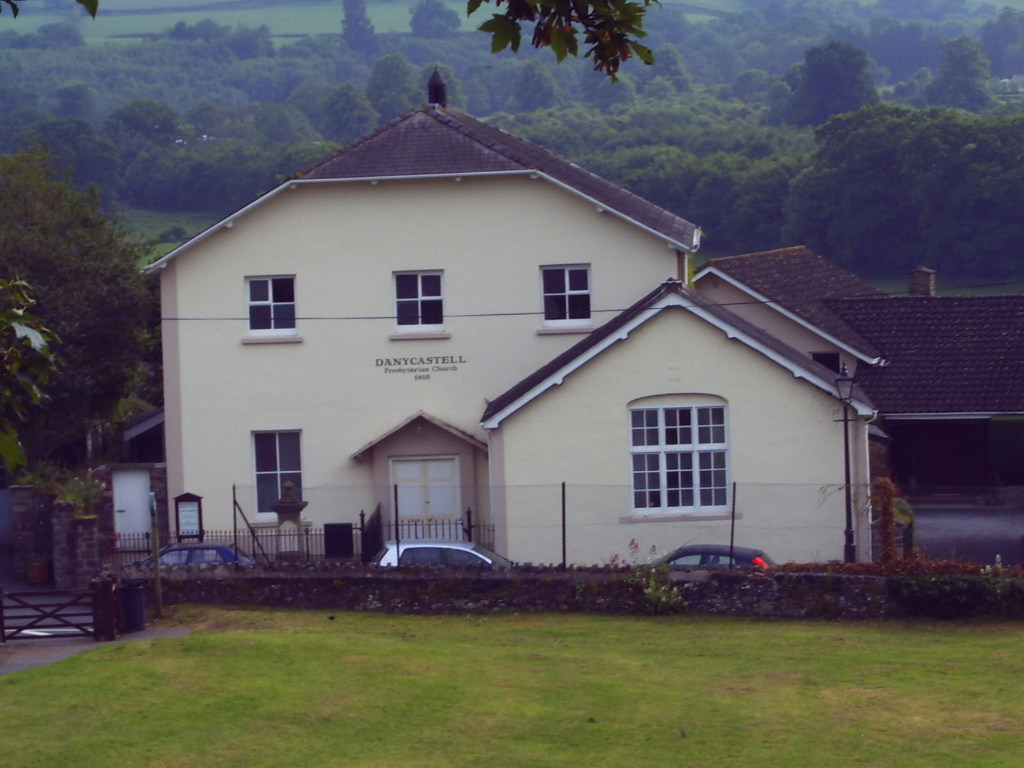 Danycastell Presbyterian Church in Crickhowell/Powys